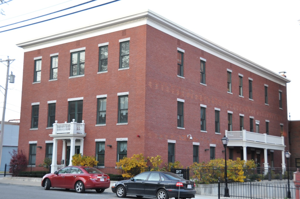 St. Joseph's Convent, located at 517 Moody Street, Lowell, Massachusetts.